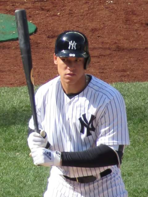 Aaron Judge batting for the New York Yankees